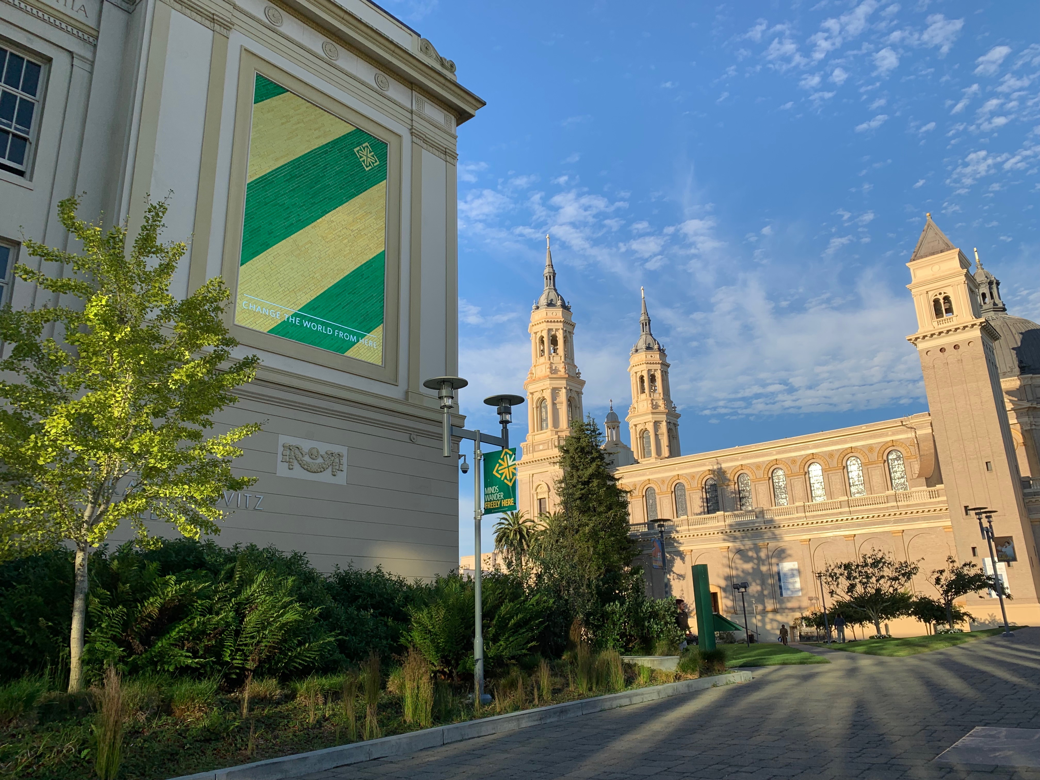 USF's Hilltop Campus